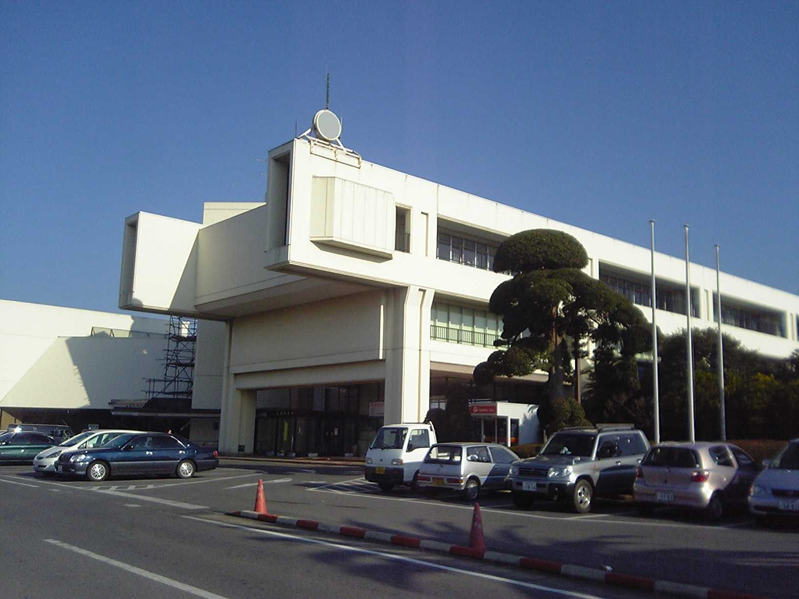 Sōsa City Office, Chiba Prefecture, Japan